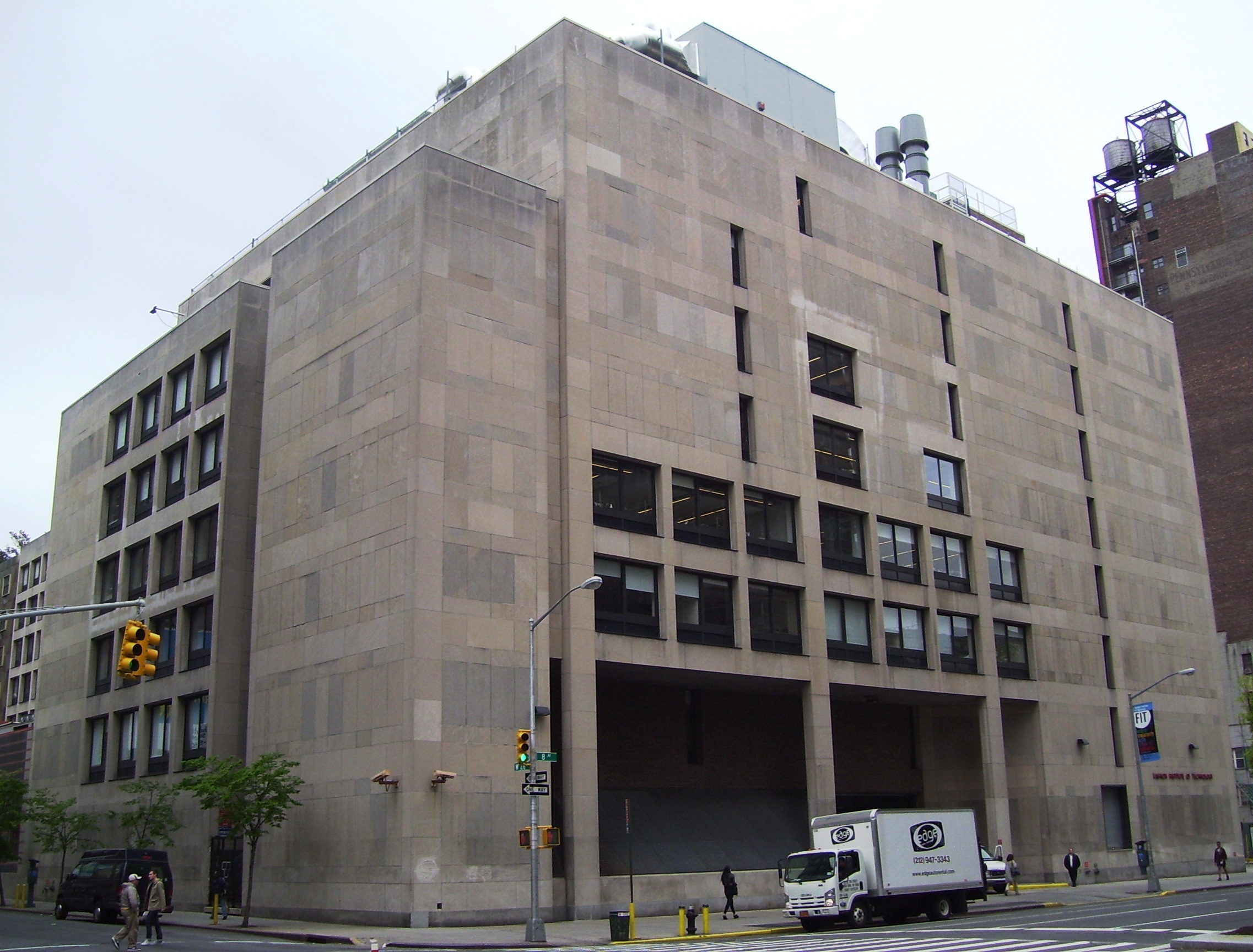 The David Dubinsky Student Center of the Fashion Institute of Technology, at 340 Eighth Avenue between 27th and 28th Streets in the Chelsea neighborhood of Manhattan, New York City, was built in 1977 and designed by DeYoung & Moscowitz. (Source: AIA Guide to NYC (4th ed.)